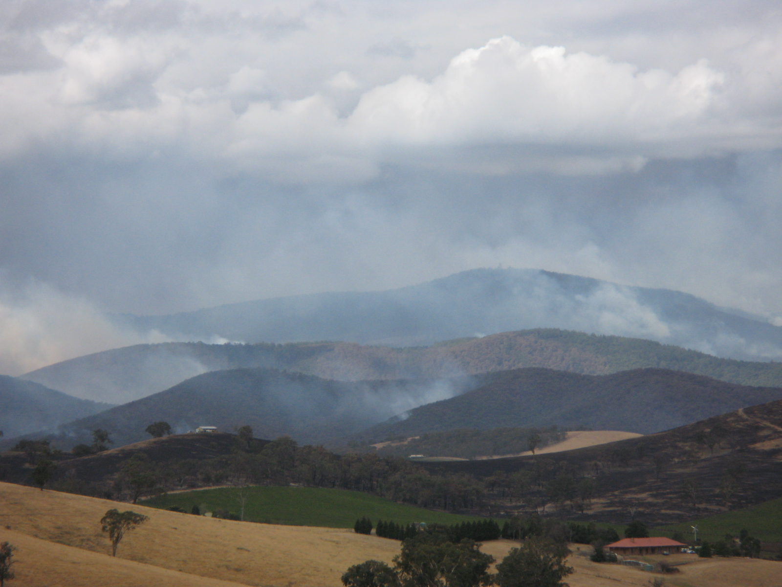 Bushfires in the black spur area of the Yarra Ranges National Park, east of Healesville. Photo taken by myself, near Yarra Glen, looking east towards the Yarra Ranges, on the 10th of February 2009.